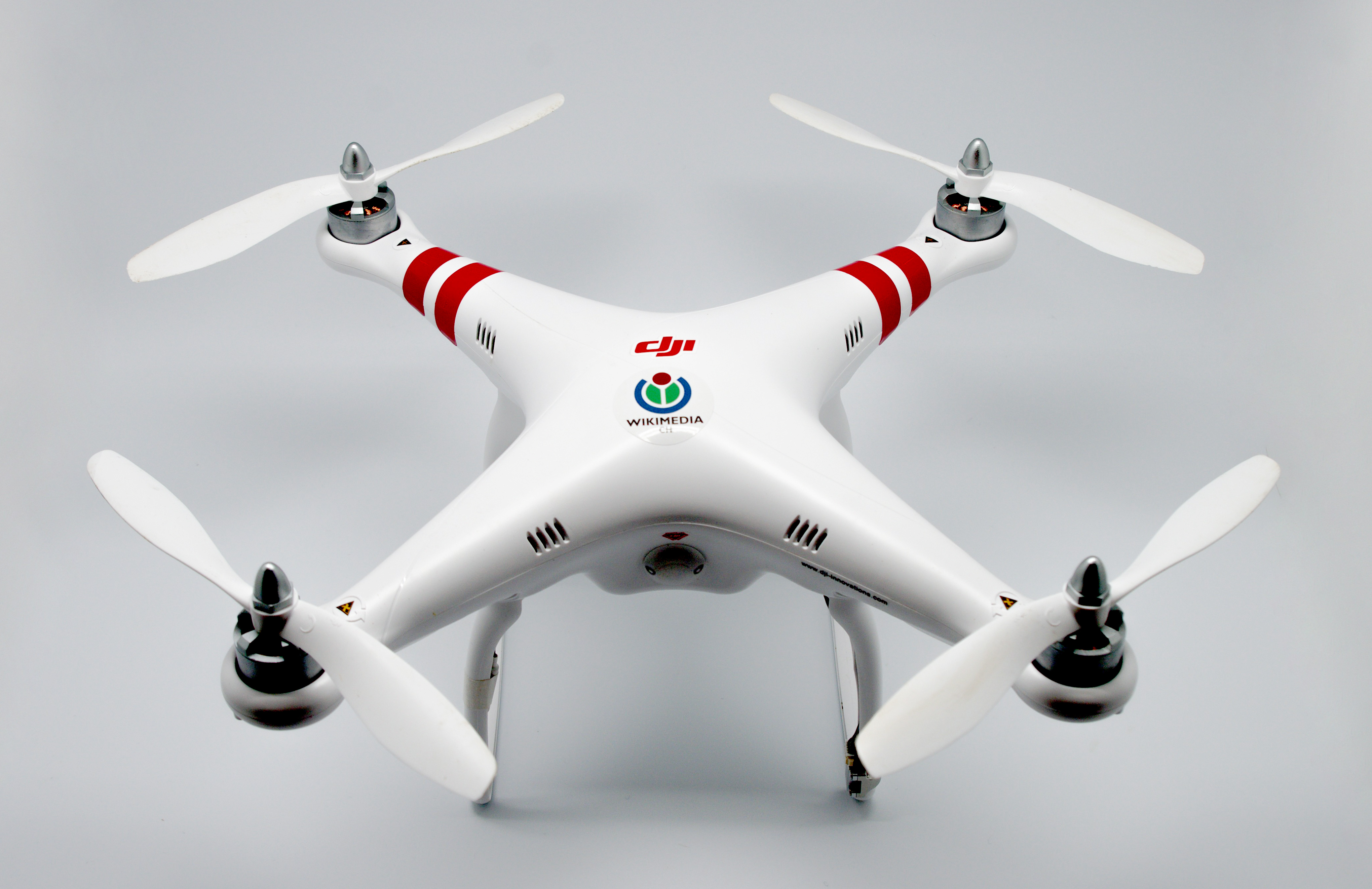 WMCH Drone, a DJI Phantom 1